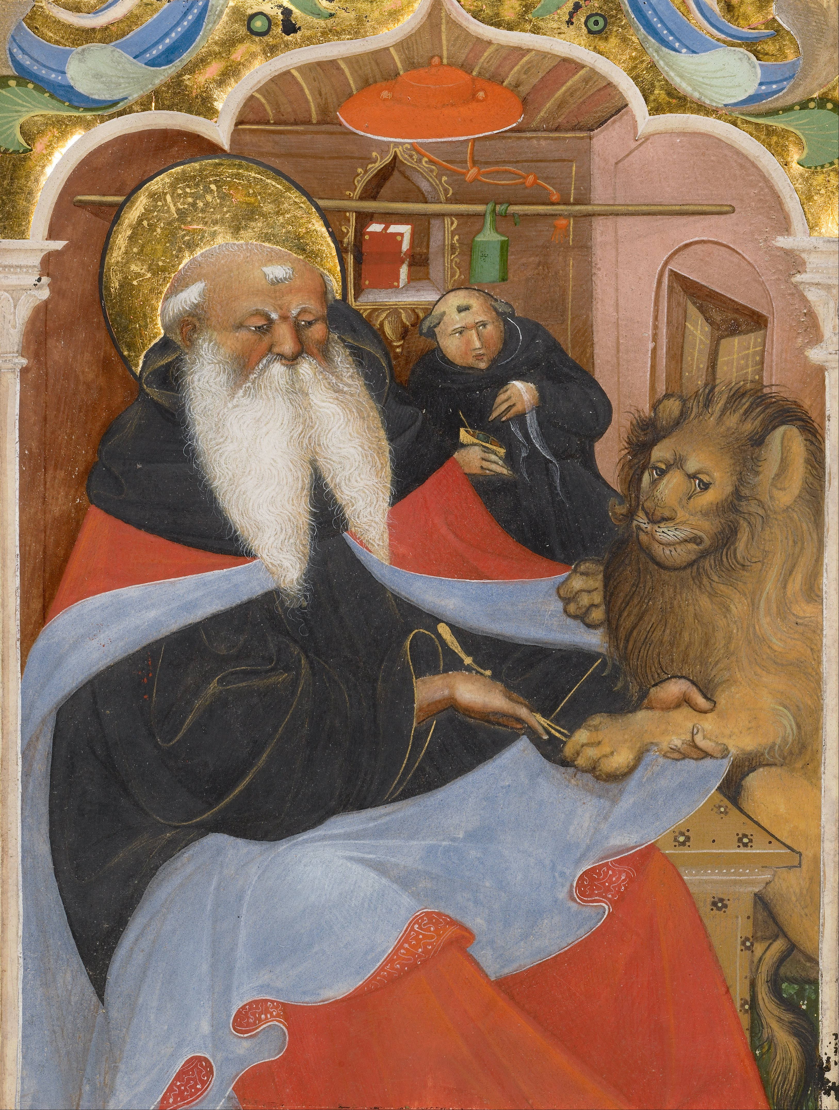 This leaf depicts a story from the life of Saint Jerome (about 341 - 420), one of the four doctors of the Church. One day, a lion entered the monastery where Jerome resided, causing his fellow monks to flee, but Jerome recognized that the beast was injured and he cured it by removing a thorn from its paw. The saint's monumental form fills the foreground of the composition, setting off the delicate gold tweezers Jerome uses to extract the thorn. In the background, a monk approaches with a pot of ointment and a bandage. The encounter between man and animal, in which Jerome comes to the lion's aid, is poignant, showing the moment when the lion submits to the saint, the saint's concentration as he removes the thorn, and the apprehensiveness of the attendant monk.